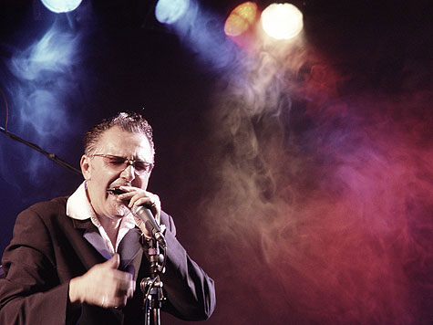 Paul Lamb in Aarhus, Denmark 2007